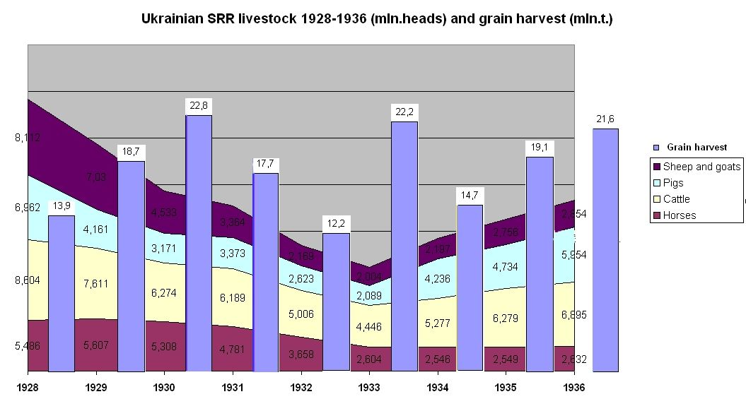 Ukrainian SRR main production indexes for 1928-1936. Sharp decline in 1931-1932 production officially called a “breakdown in agriculture”.